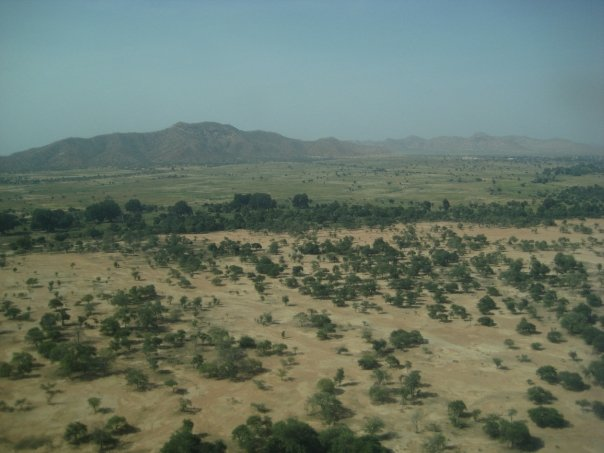 Goz Beida near Abéché, Tchad